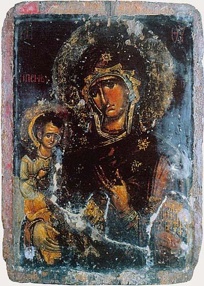 The oldest existing icon in Bosnia situated in the Church of the Dormition in Čajniče.